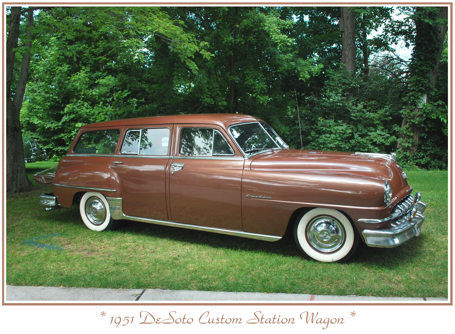 1951 DeSoto Custom station wagon2009 National DeSoto Club meet in St. Joseph, Michigan, July 22-26, 2009. This is one imposing DeSoto.